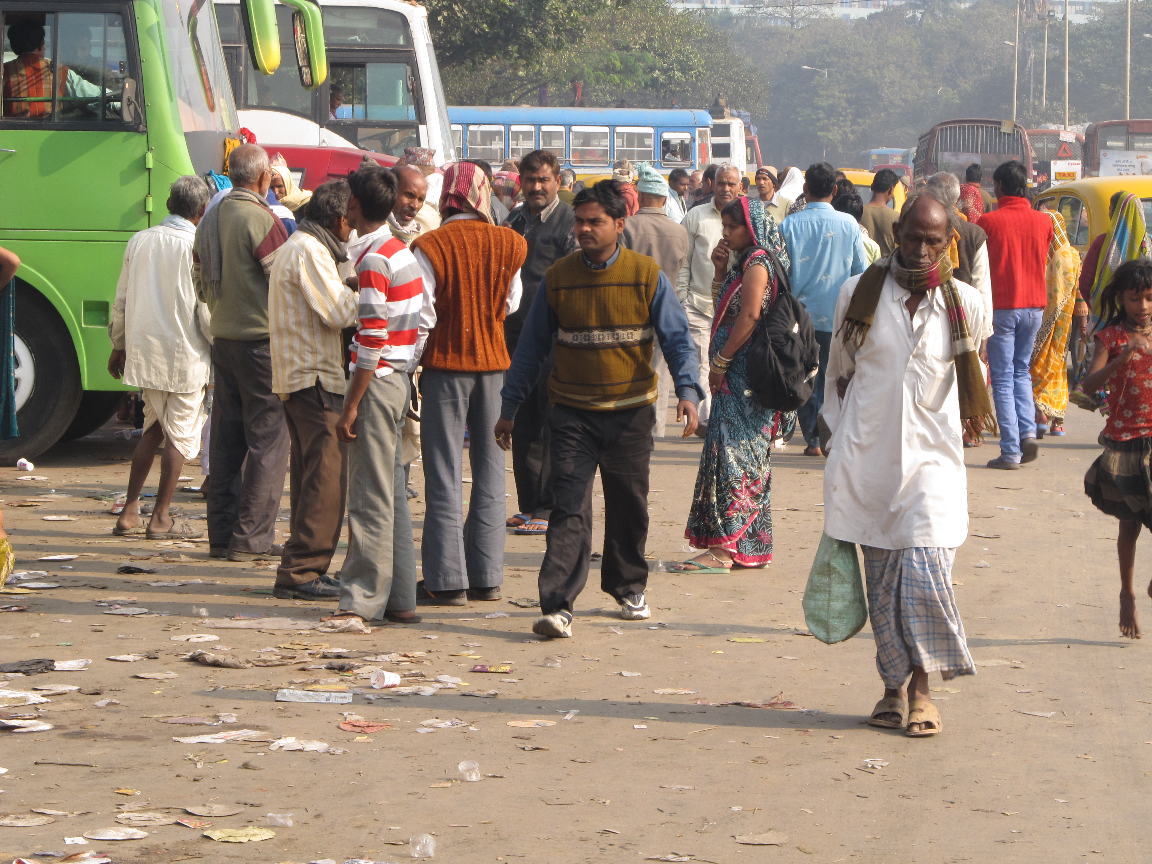 Photographed at Kolkata.